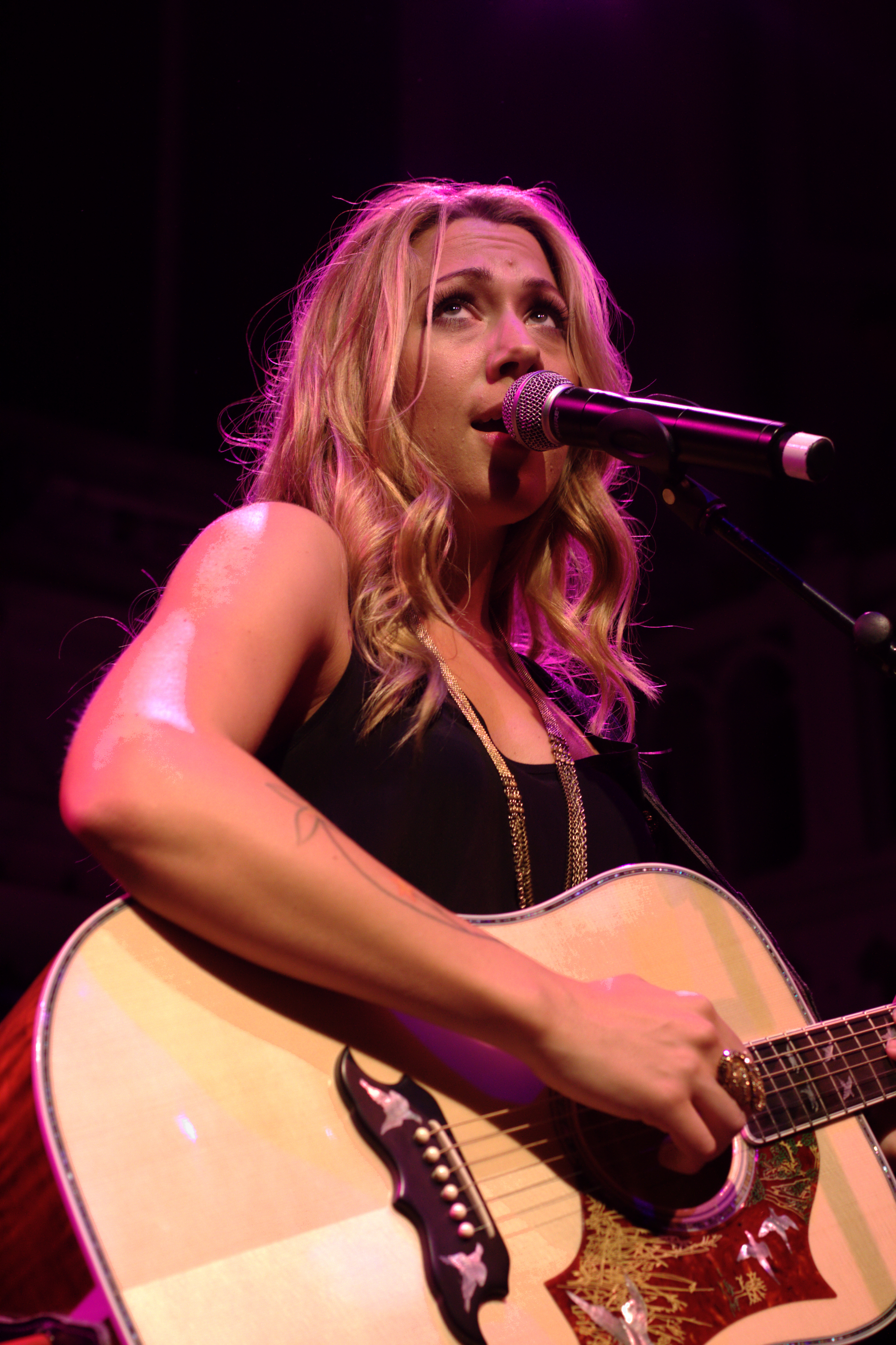 Colbie Caillat playing in Paradiso, Amsterdam on 2009-07-22